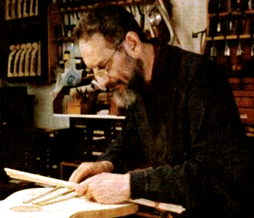 Luthier David Rubio in Cambridge ca. 1997